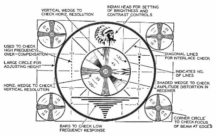 The famous RCA Indian Head television test pattern used on many television stations during the 1950s and 1960s, with its parts labeled explaining what each part of the pattern was used for. Test patterns are still images often transmitted by TV stations when no program is on. The parts of the pattern were used to measure the resolution of the signal, and to align the transmitter or receiver to get the best picture. This pattern was used with the old analog NTSC video transmission standard employed in the US before 2000, so many elements of the pattern would not be of use for modern digital HDTV pictures.